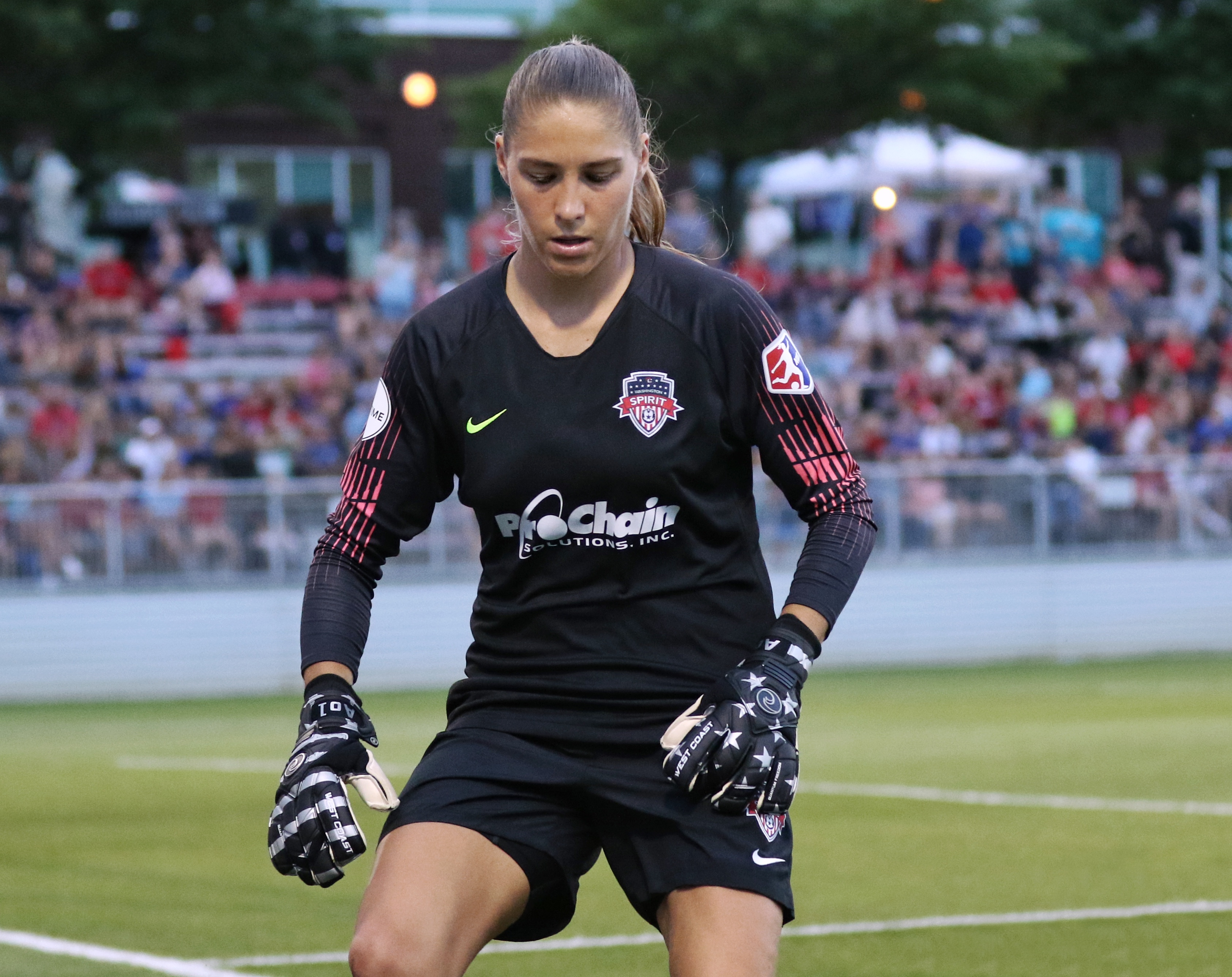 Aubrey Bledsoe playing for Washington Spirit in 2018